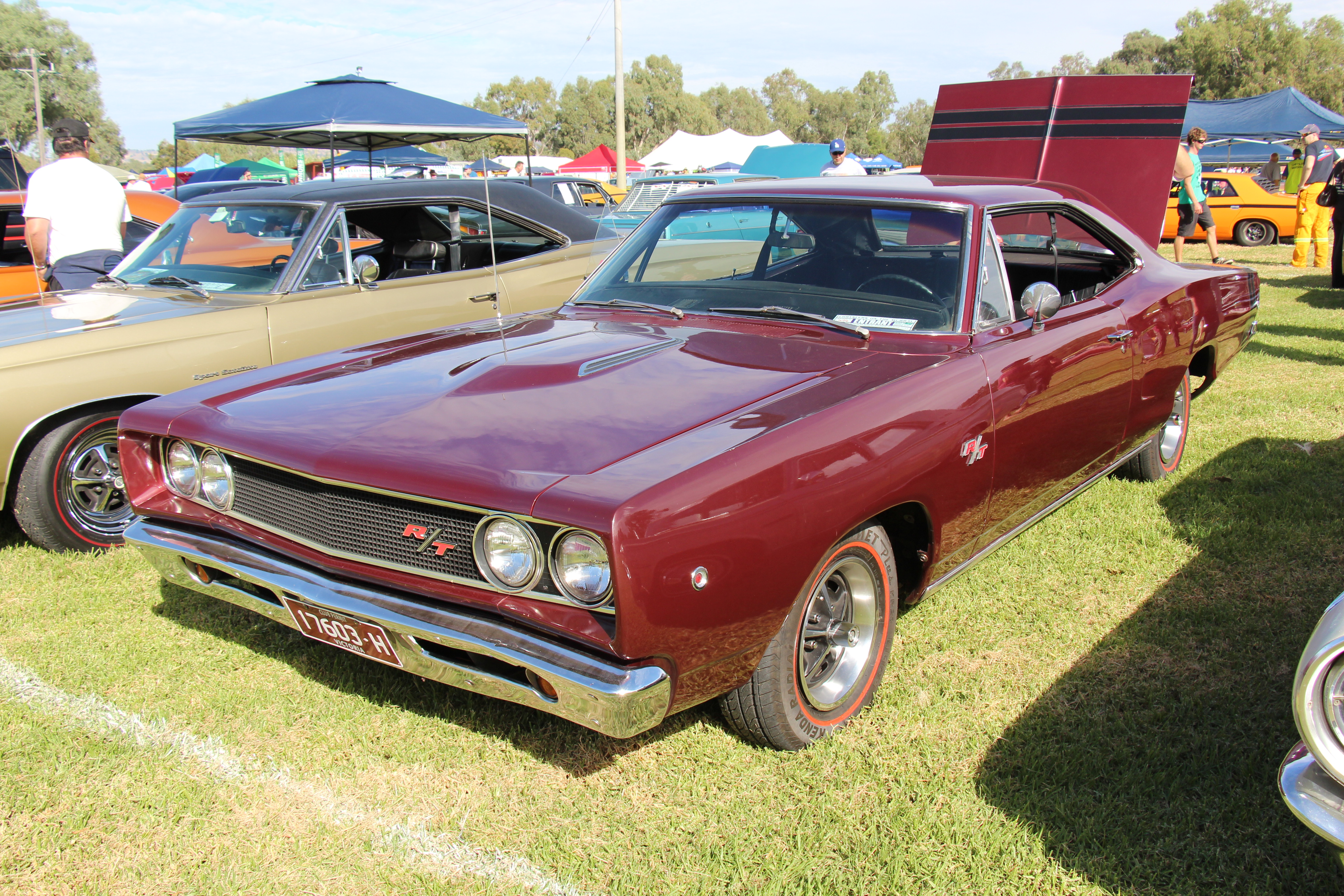 Burgundy. Coronets were made from 1949-76. This is the 5th generation, 1965-70. The Coronet and similar Plymouth Belvedere received complete redesigns in 1968, as did the Dodge Charger, which shared the mid size B-body platform. Models available were the base Coronet, Coronet Deluxe, Coronet 440, Coronet 500, Coronet R/T and the Coronet Super Bee. The base Coronet and Deluxe were available as 2-door coupes, 4-door sedans or wagons, the rest 2 door Hardtops or convertibles Engines; 225 slant 6, 273, 318, 383, 440 and the426 Hemi was an option on the RT or Super Bee